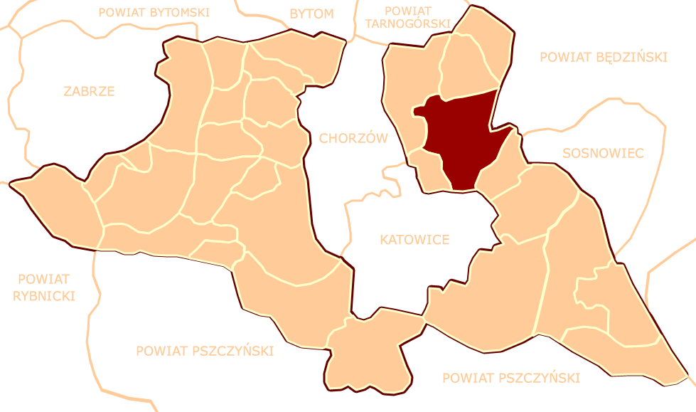 Map of city of Siemianowice Śląskie (1946) in Katowice County, Silesian Voivodeship